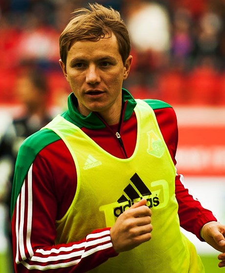 Roman Pavlyuchenko